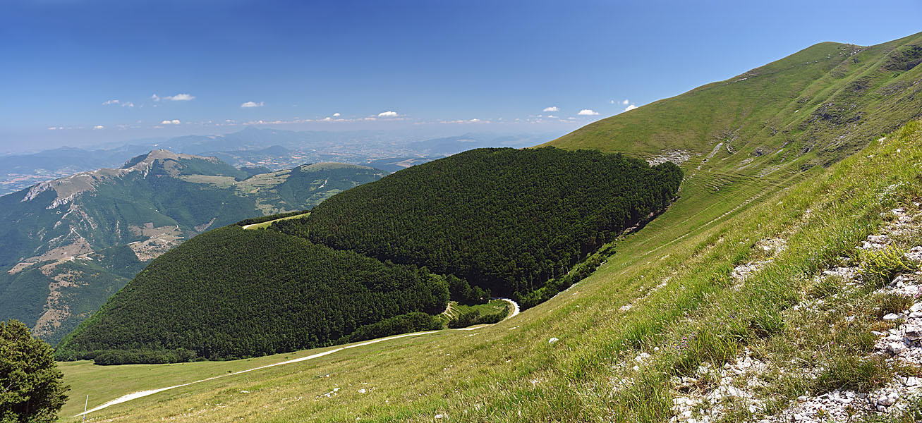 The NE side of Monte Catria